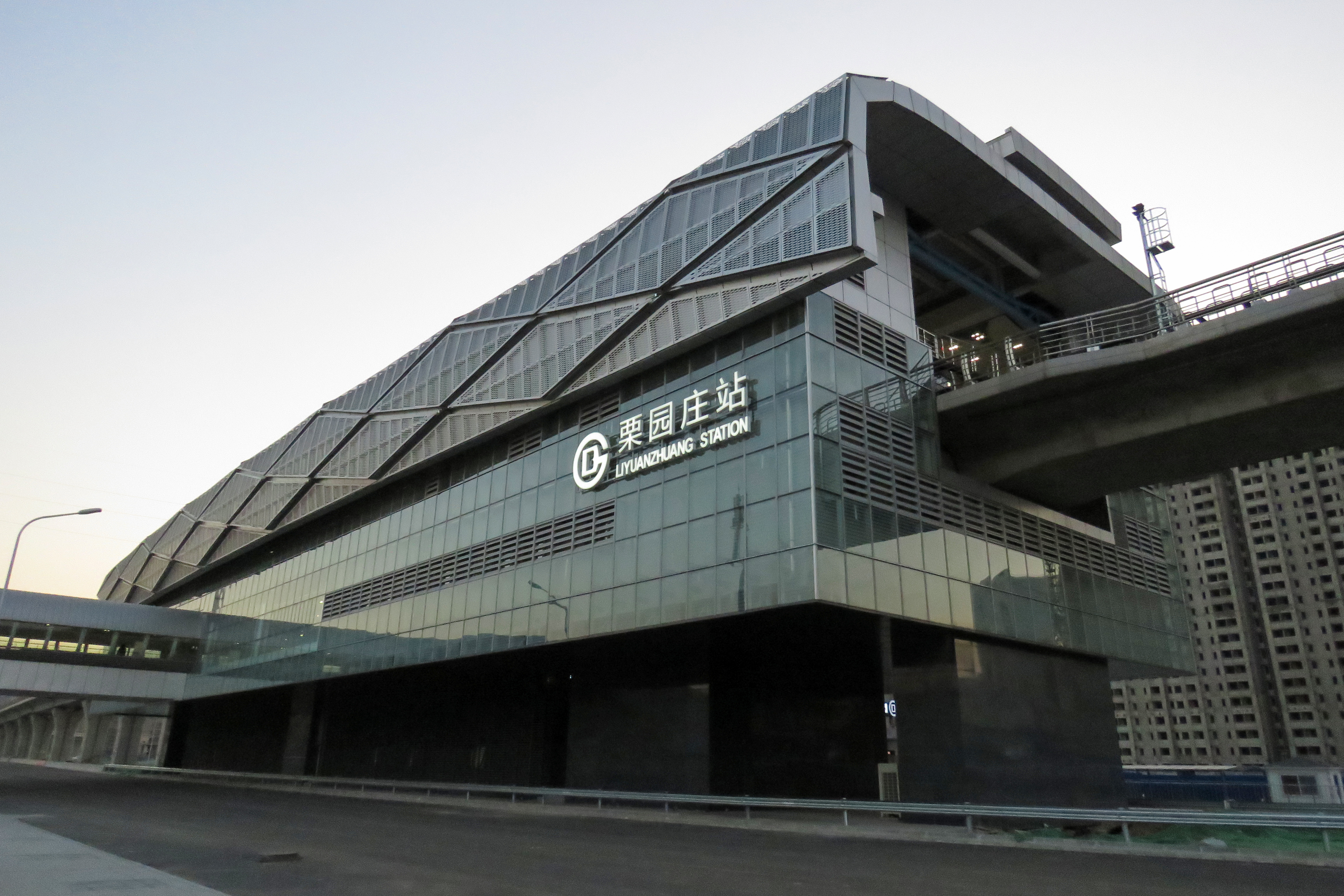 Finally, although missed DF11-0128... Inner frame: light blue.